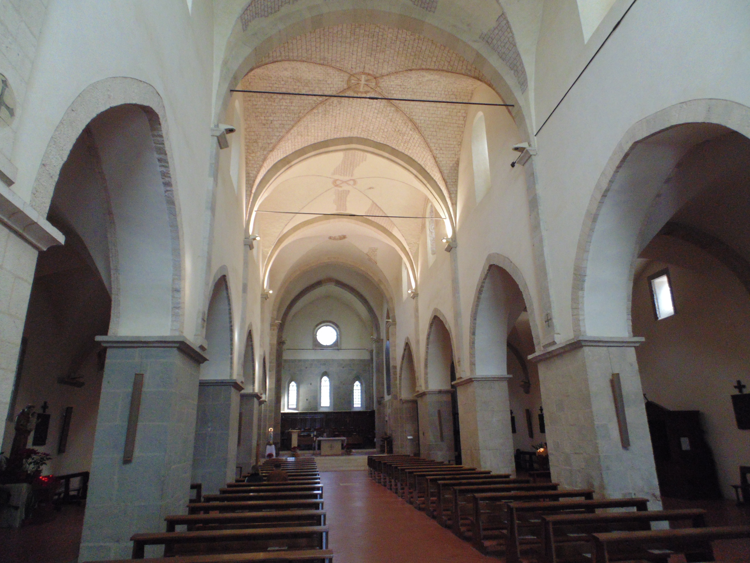 04013 Sermoneta, Province of Latina, Italy